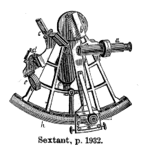 Sextant